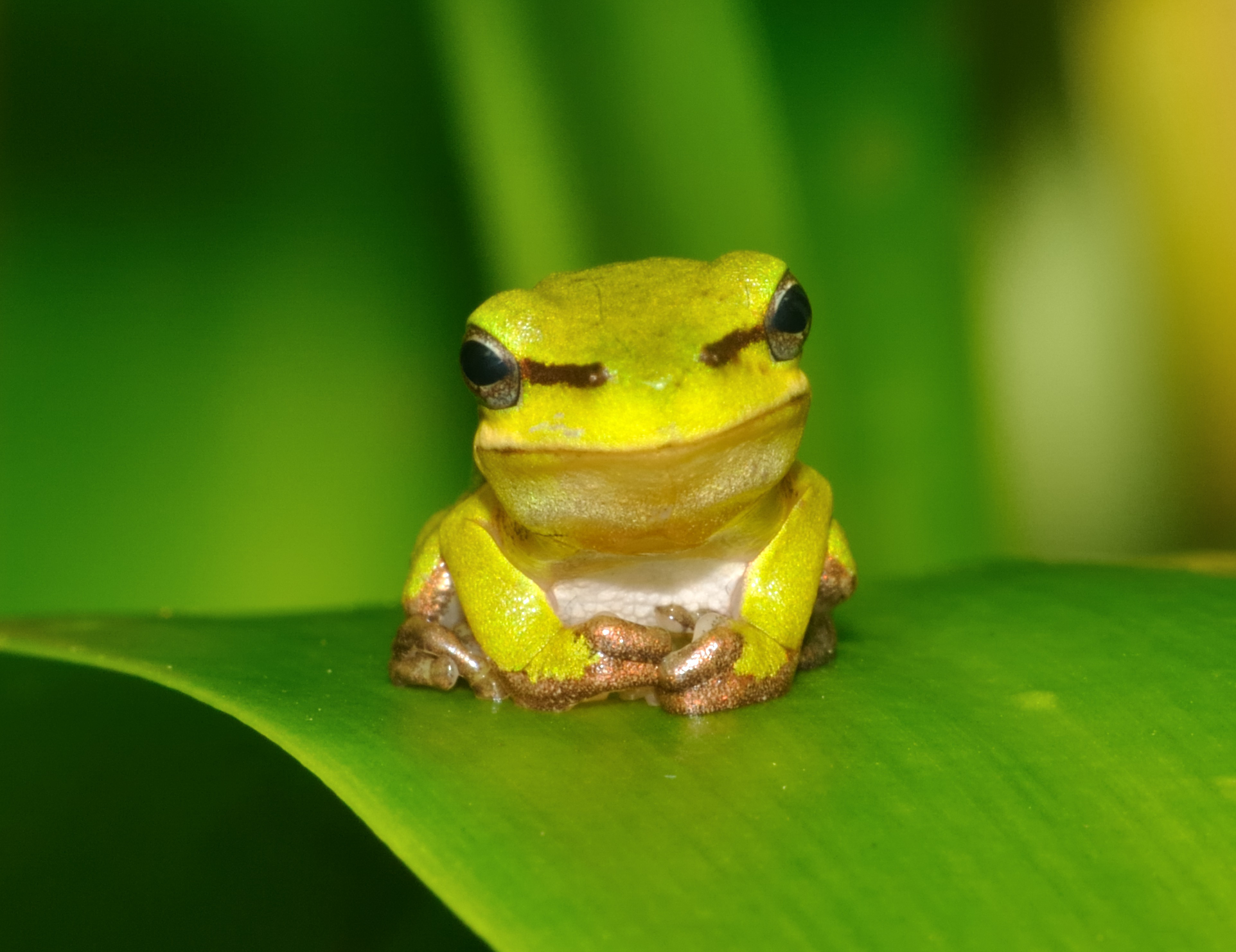 Eastern Dwarf Tree Frog (Litoria fallax) in Port Macquarie, New South Wales, Australia.